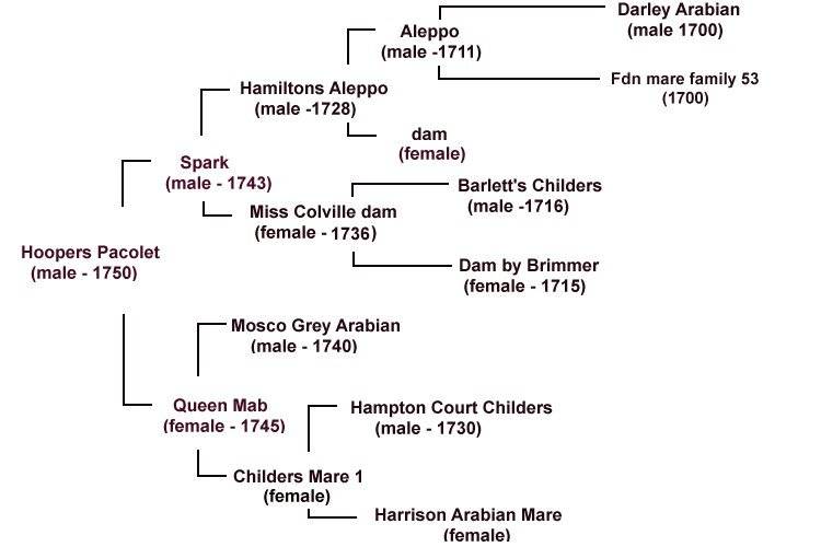 Hoppers Pacolet thoroughbred horse pedigree